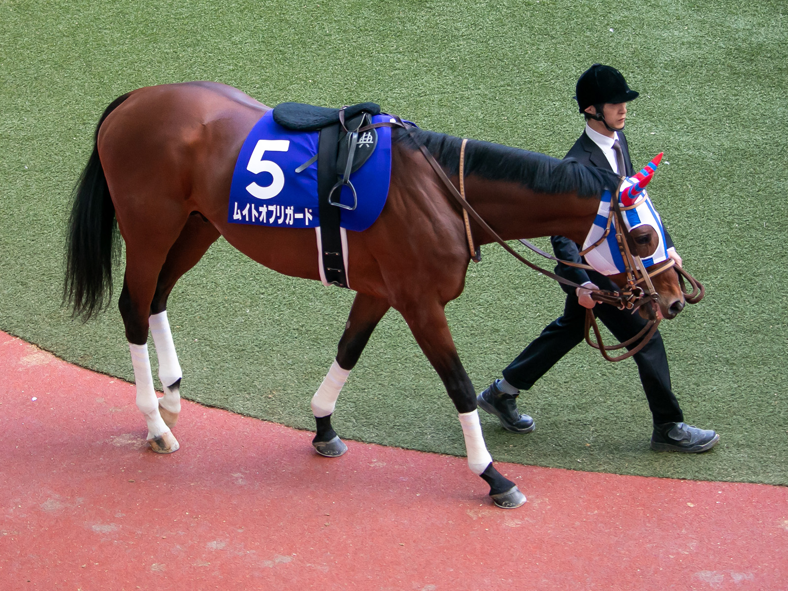 Muito Obrigado(JPN), Racehorse of Japan.